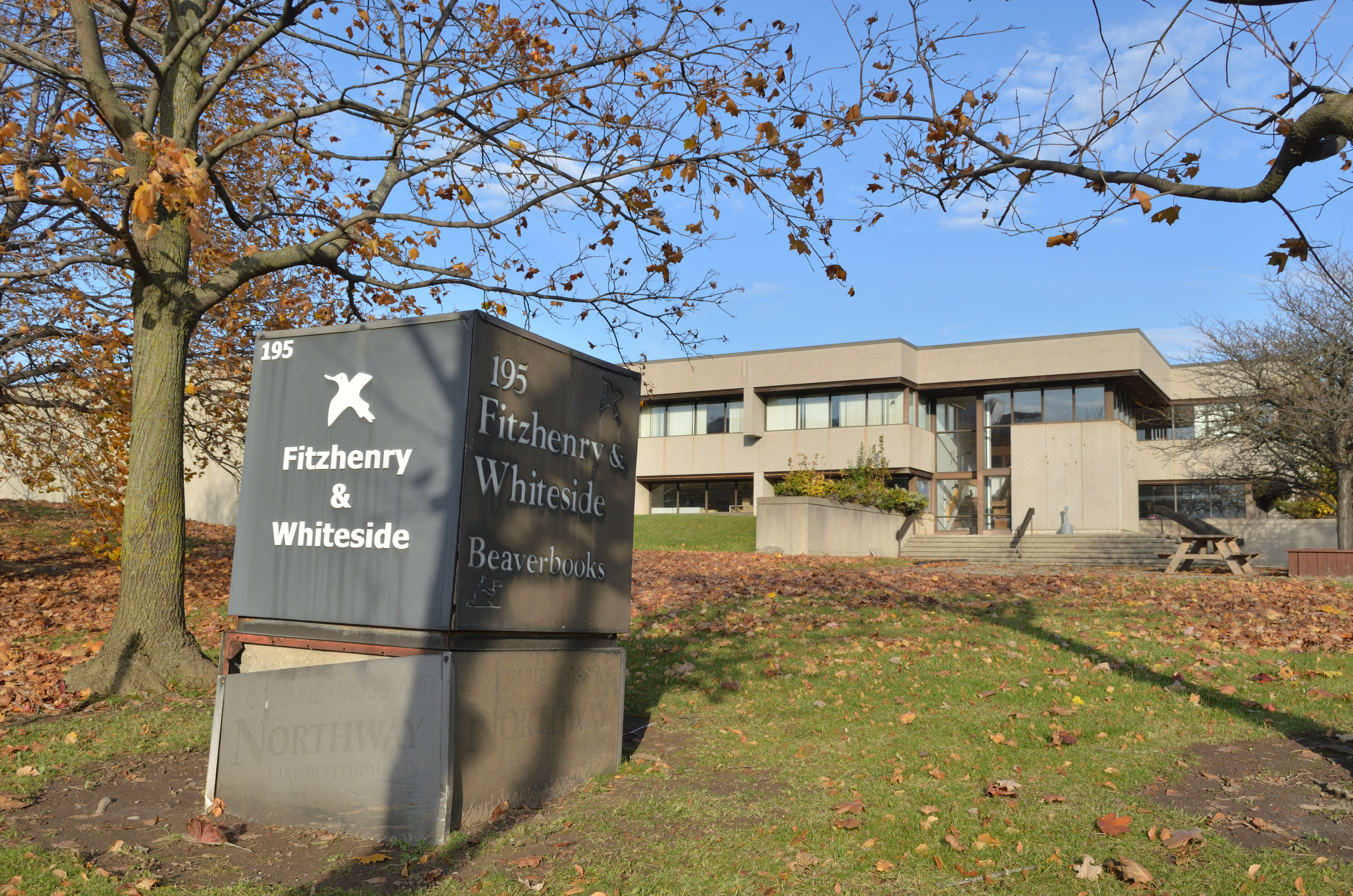 Fitzhenry & Whiteside office in Markham